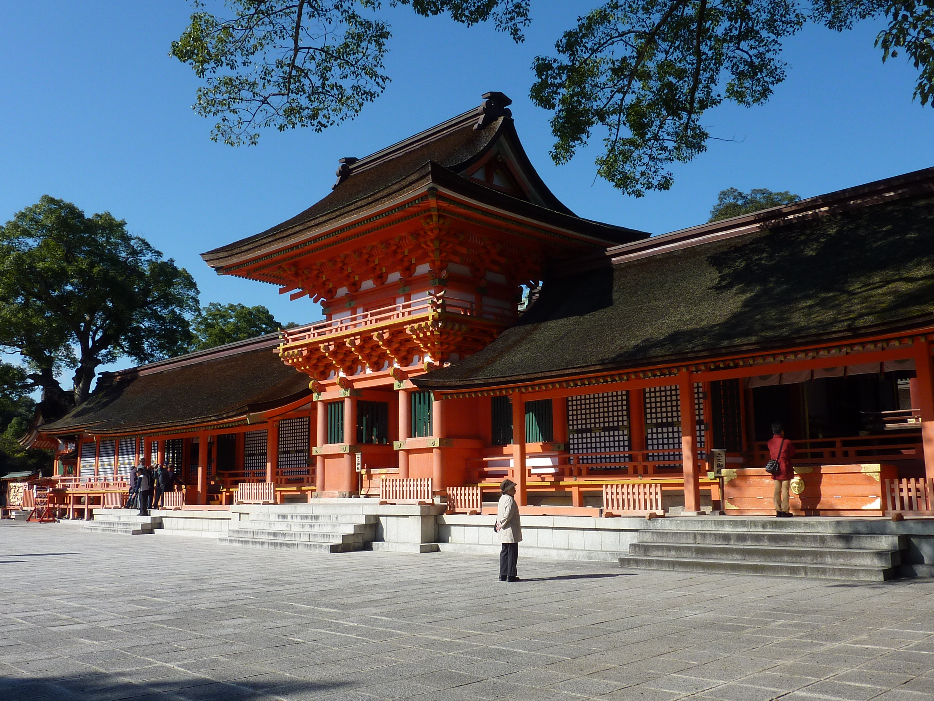 Usa Shrine - Nanchu Romon